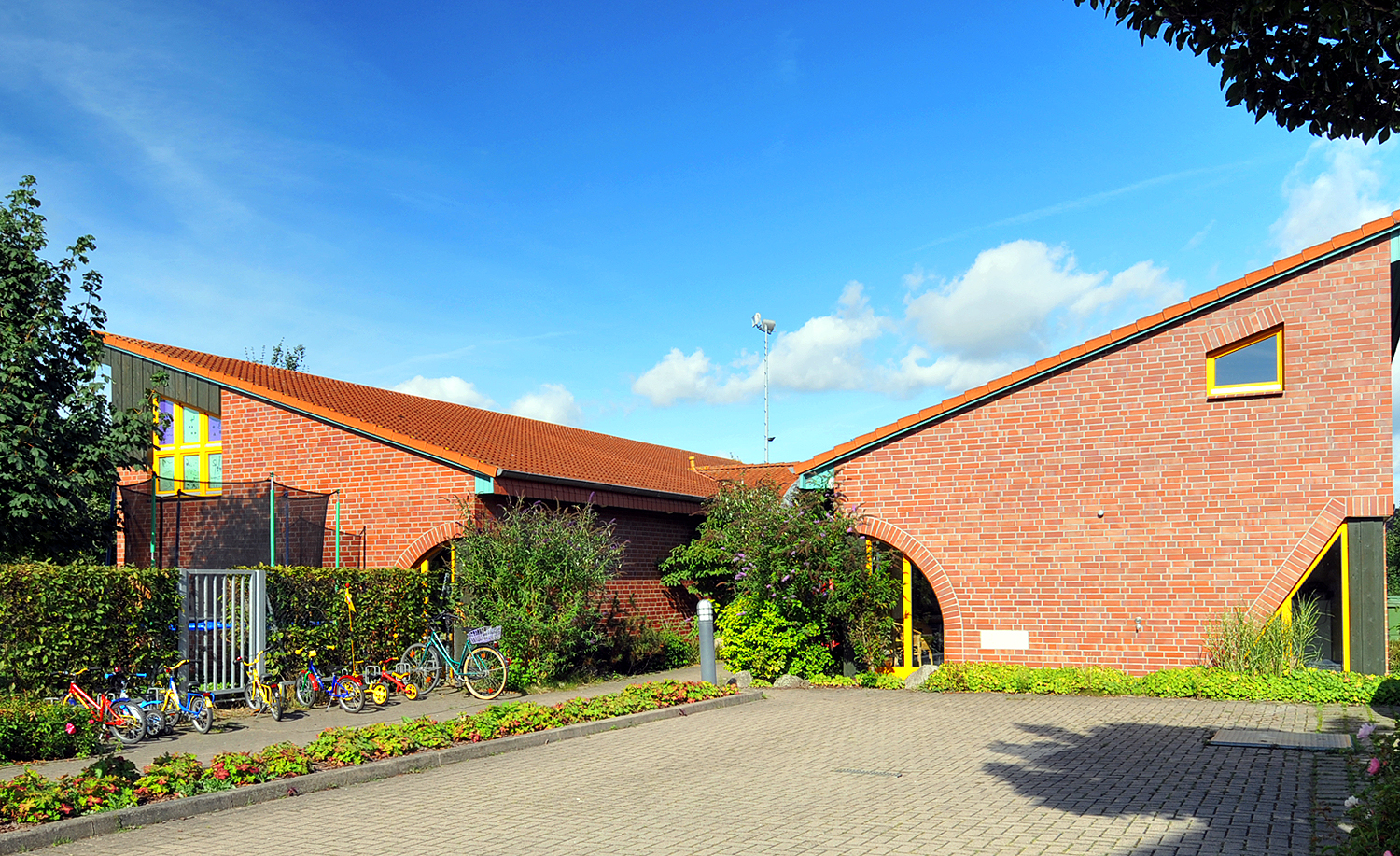 Kindergarten in Adensen in Nordstemmen, district Hildesheim, Lower Saxony, Germany.